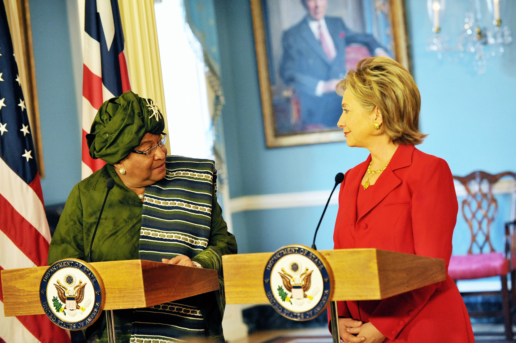 U.S. Secretary of State Hillary Rodham Clinton meets with Liberian President Ellen Johnson-Sirleaf at the U.S. Department of State in Washington, DC April 21, 2009. State Department photo